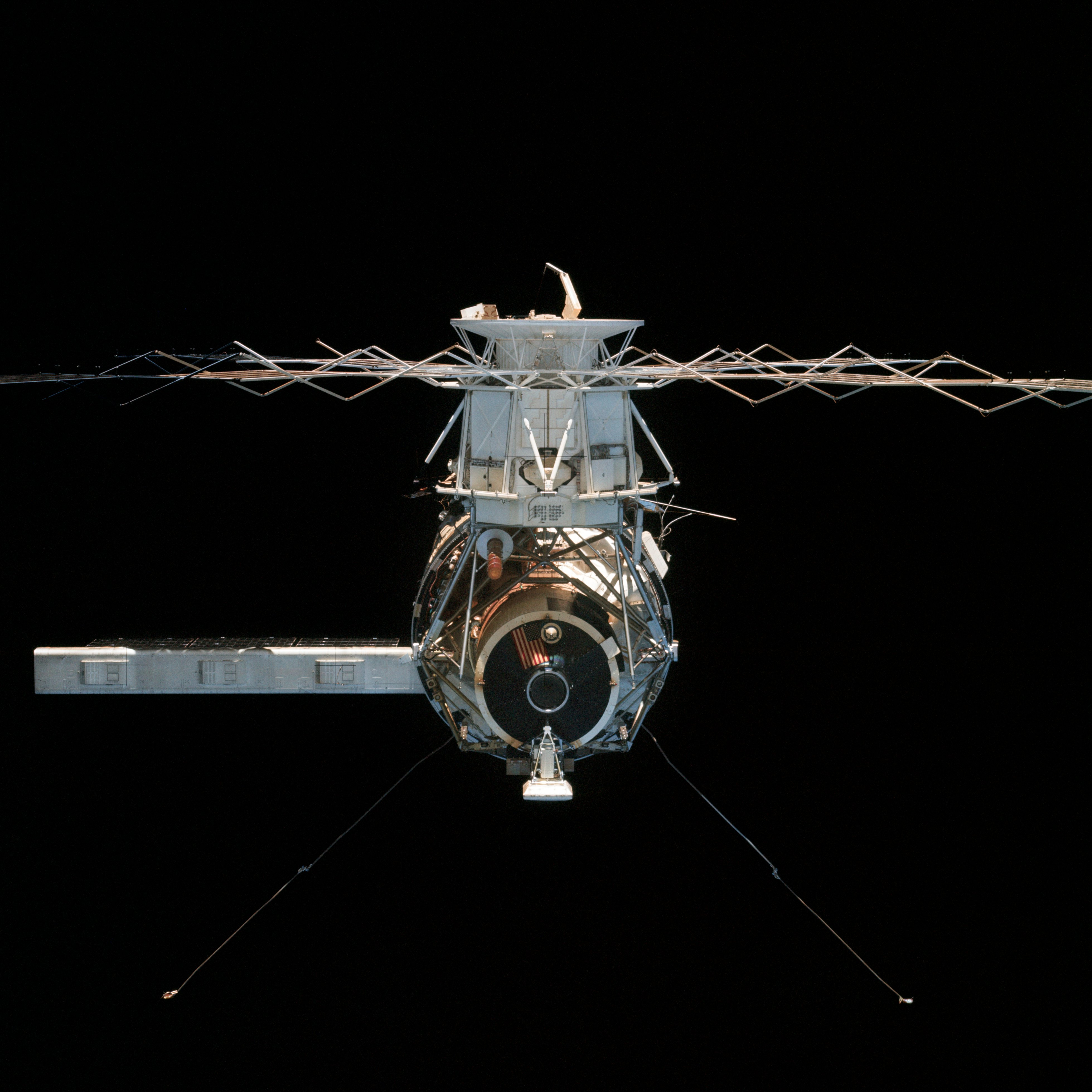 Skylab 4, Skylab Multiple Docking Adapter (MDA), Apollo Telescope Mount (ATM) and solar array as the Apollo Command Module undocks and moves away.